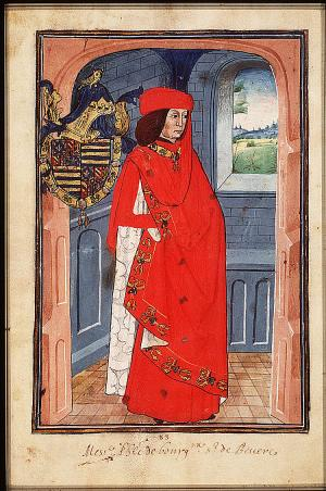 Statuts, Ordonnances et Armorial de l'Ordre de la Toison d'Or (Statutes, Ordonnances and armorial of the Order of the Golden Fleece) Place of origin, date: Southern Netherlands; 1473. Added sections: Southern Netherlands; 1478 or shortly after and 1491 or shortly after Material: Vellum, ff. 86, 249x187 (167x106) mm, 23 lines, littera cursiva (lettre bourguignonne). French. Binding: 18th-century brown leather Decoration: 1 full-page miniature (170x115 mm) with border decoration; 92 miniatures (185/155x120/100 mm); 1 historiated initial (80x90 mm) with border decoration; decorated initials with border decoration (ff., Added section: miniatures ; 4 drawings for miniatures (not finished) Provenance: Presented in 1473 by Gilles Gobet, King of Arms of the Order of the Golden Fleece, to Charles the Bold, Duke of Burgundy and the other Knights during the Chapter of the Order held at Valenciennes; Treasure of the Golden Fleece, Brussls; taken away by the Treasurer C.-F. Humyn (d. 1735) or his daughter C.Ch. de Corte; by legacy to her daughter M.-L. de Corte, wife of Ph.-E. de Poederlé; purchased in 1781 at the Poederlé sale by G.-J- Gérard of Brussels; acquired in 1832 as part of the Gérard collection (no. A 27)